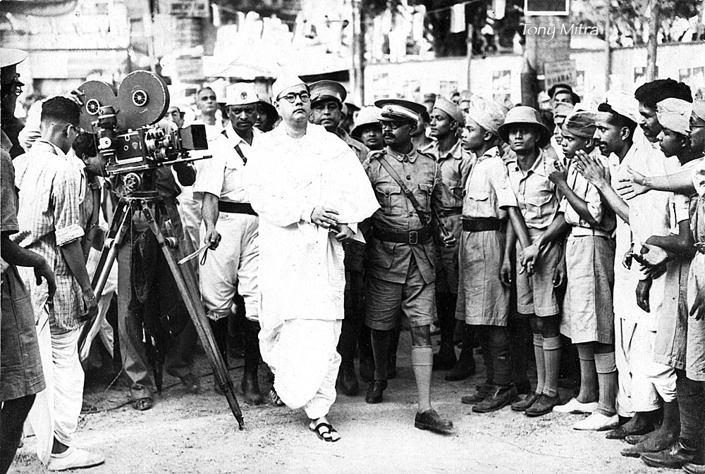 Subhash Chandra Bose arriving at the AICC meeting, in 1939.